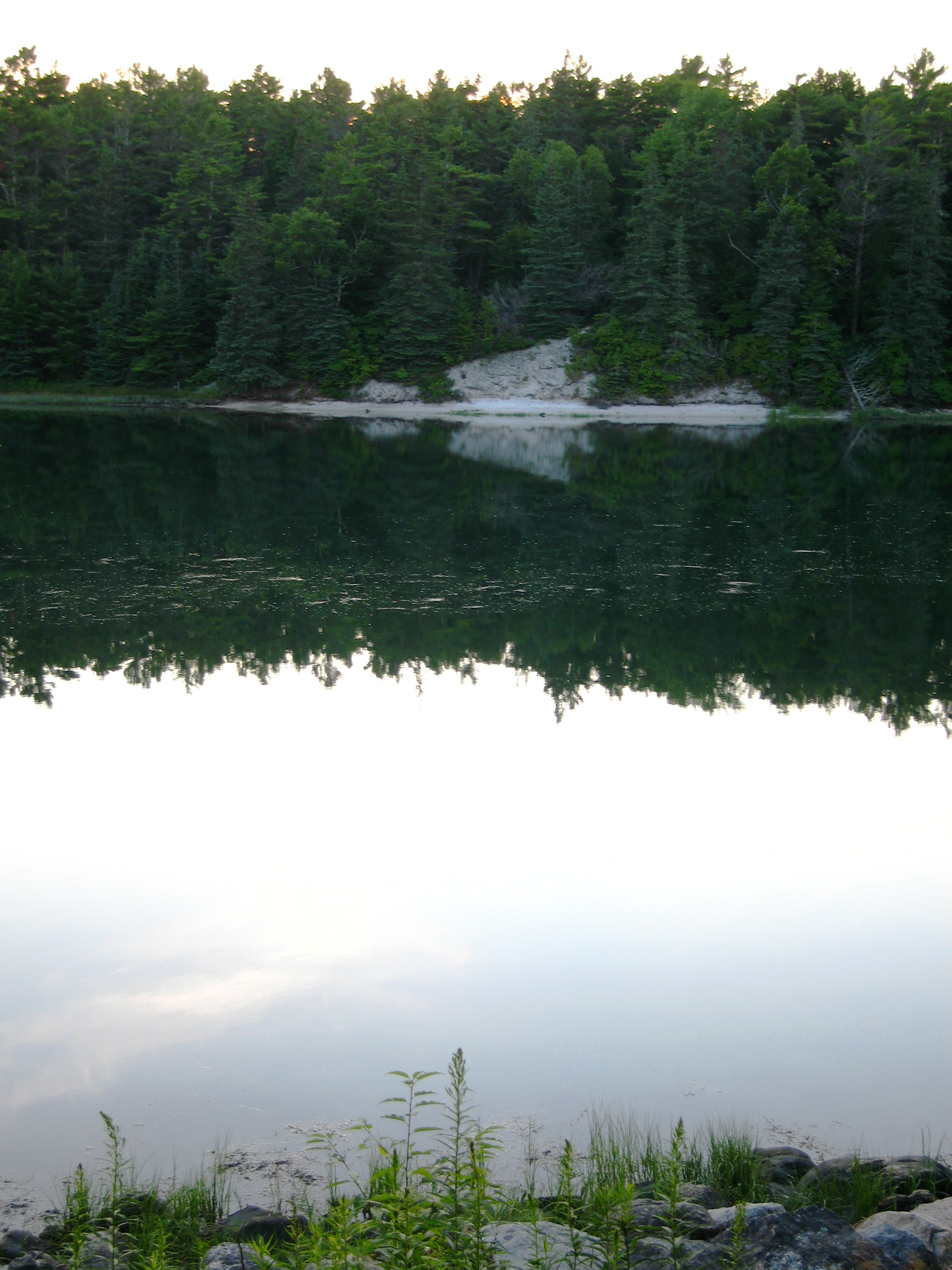 View of the Glidden shell midden across the Damariscotta River in Maineen.